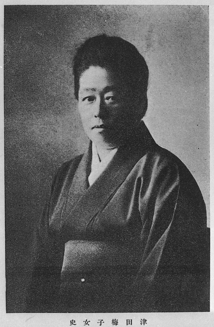 Portrait of Tsuda Umeko (津田梅子, 1864 – 1929)